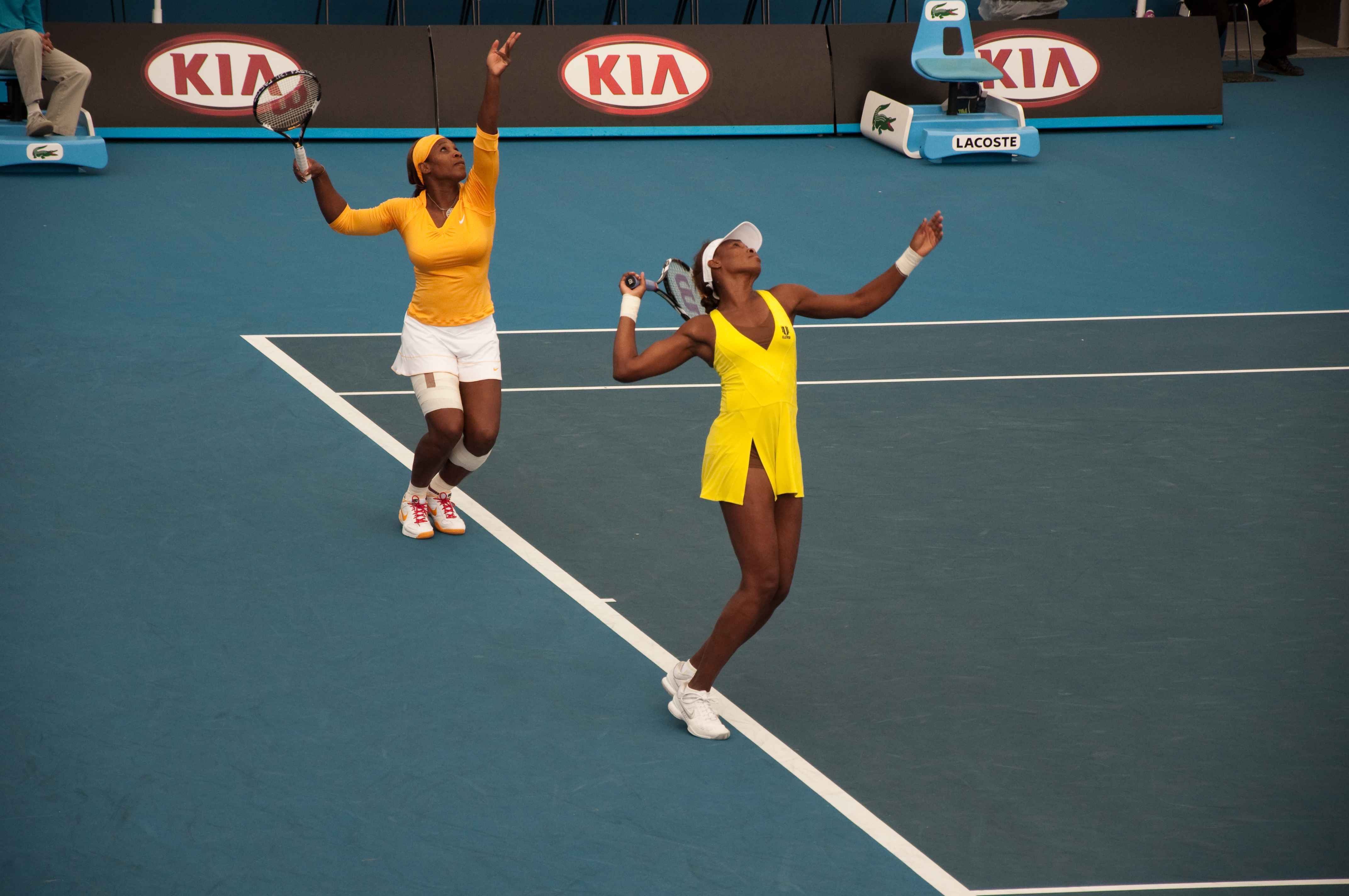 Melbourne Australian Open 2010 Venus & Serena Practice Serve